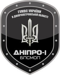 An emblem of the «Dnipro-1» battalion, also known as «Dnipro», which is a volunteer police patrol unit of the Ministry of Internal Affairs of Ukraine based in Dnipropetrovsk region.